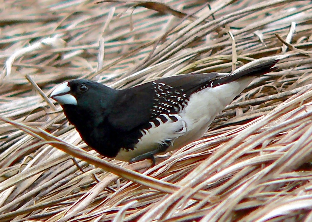 An adult Black-and-white mannikin at Douala, Cameroon